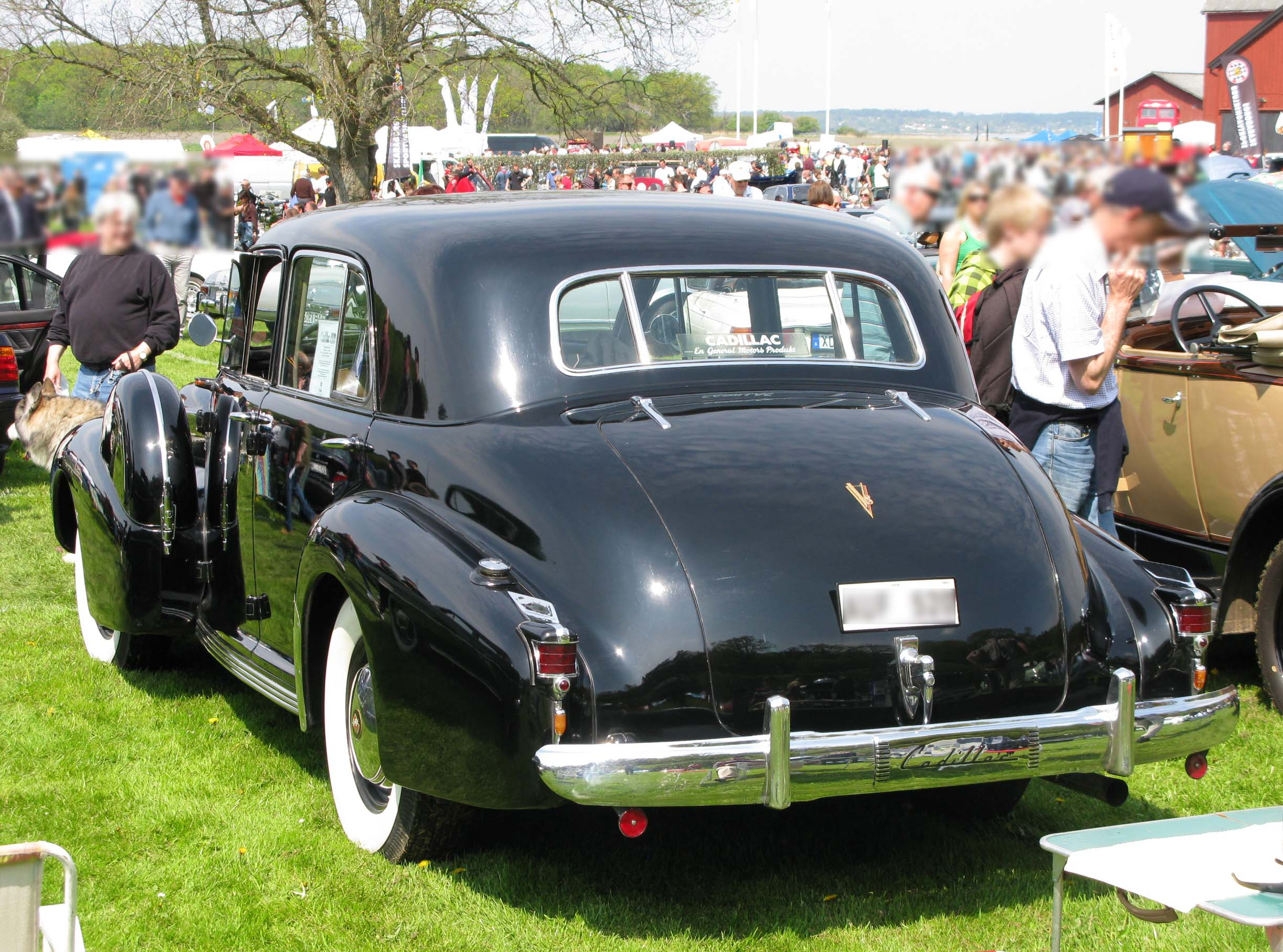 1939 Cadillac Series 60 Special.Event: Tjolöholm Classic Motor 2012.